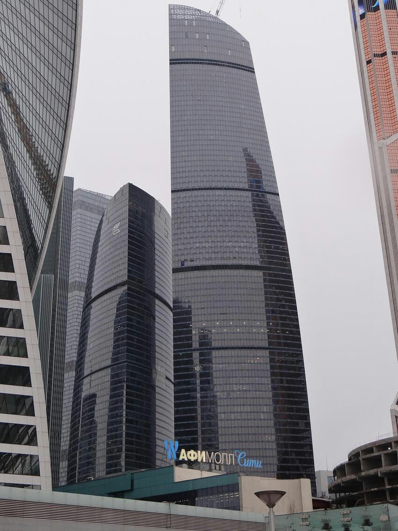 Federation Tower in Moscow